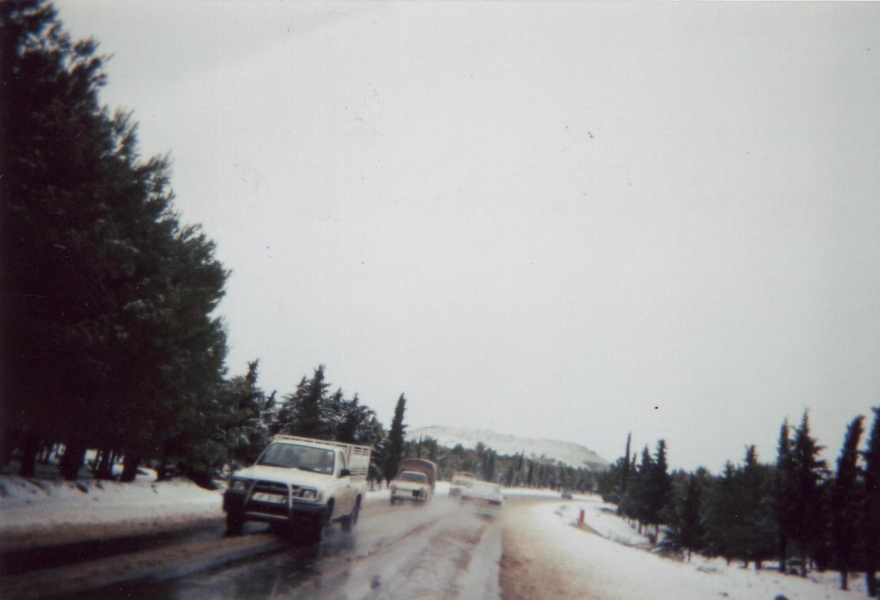 Hautes plaines sous la neige aux environs de Oum el bouaghi.(Ain Babouche)